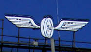 Detail of the old RZD logo atop of the Tank Engine Building, by Ivan Fomin, Moscow, Reg Gates Square